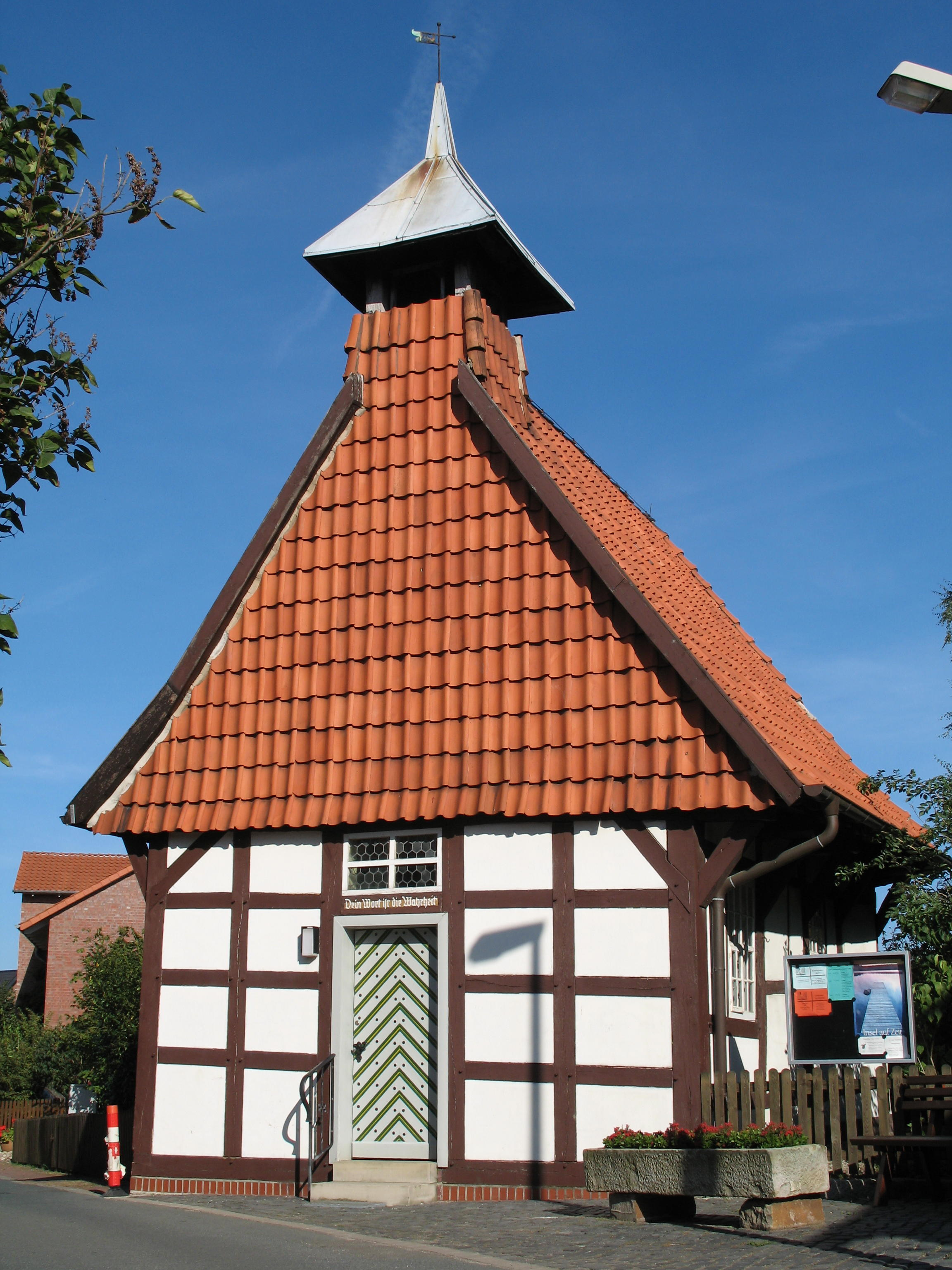 Chapel in Northen, Lower Saxony, Germany